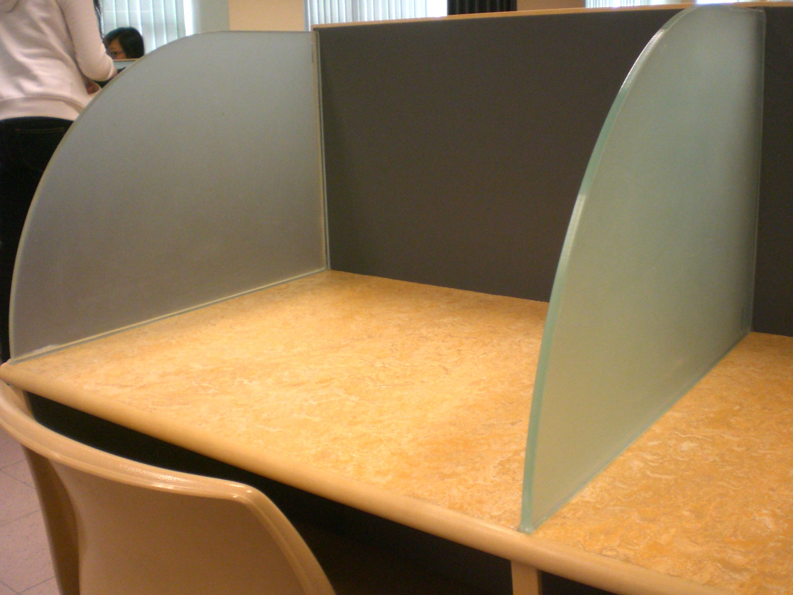 自修室的個人空間(一丁方) self-made by TeresaKen